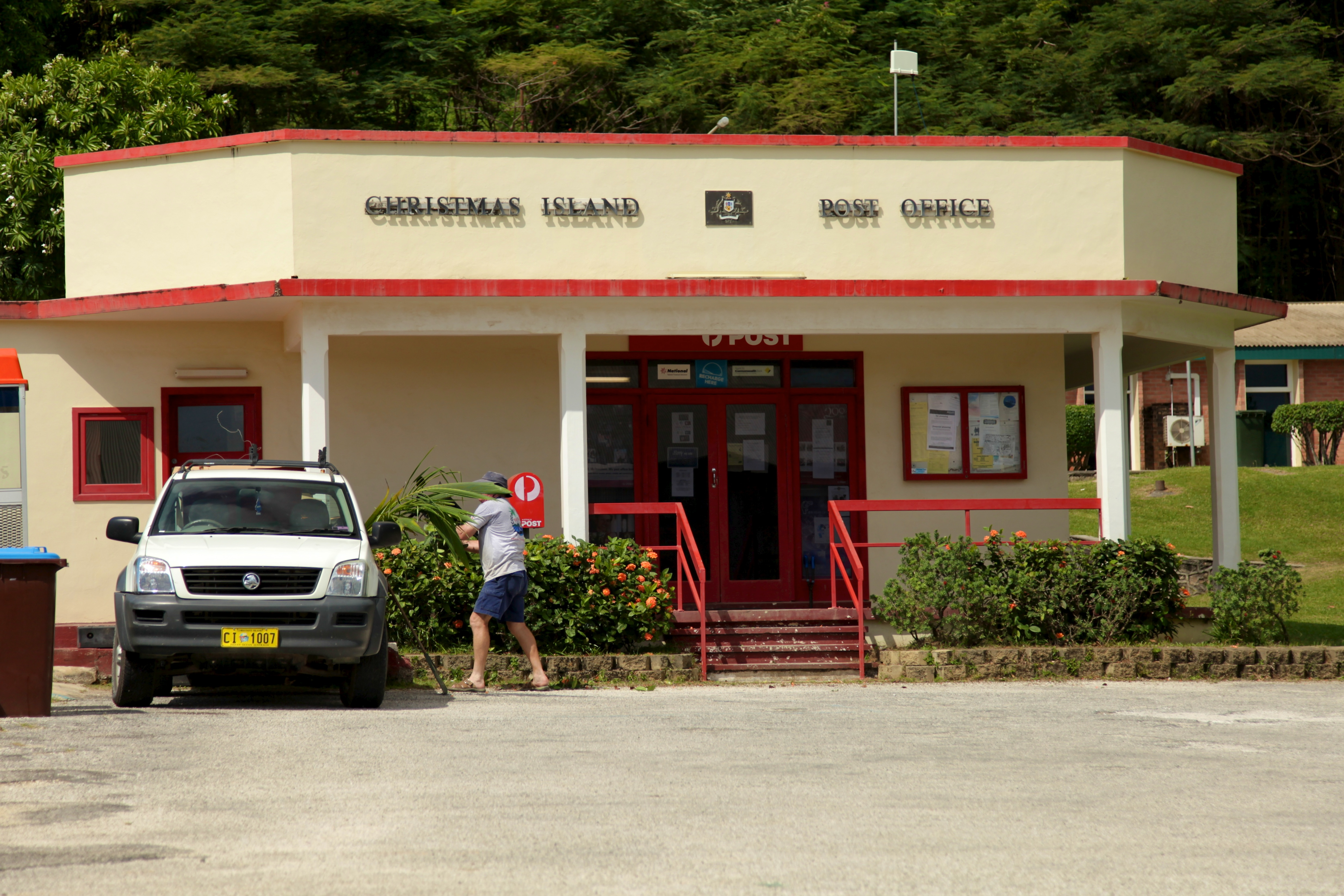 Christmas Island Post Office